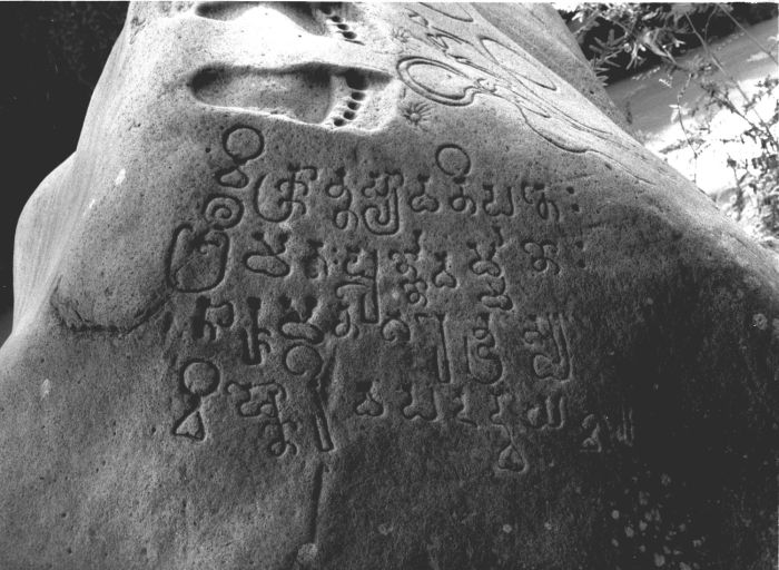 Stone with inscriptions at the Semplak plantation, Buitenzorg